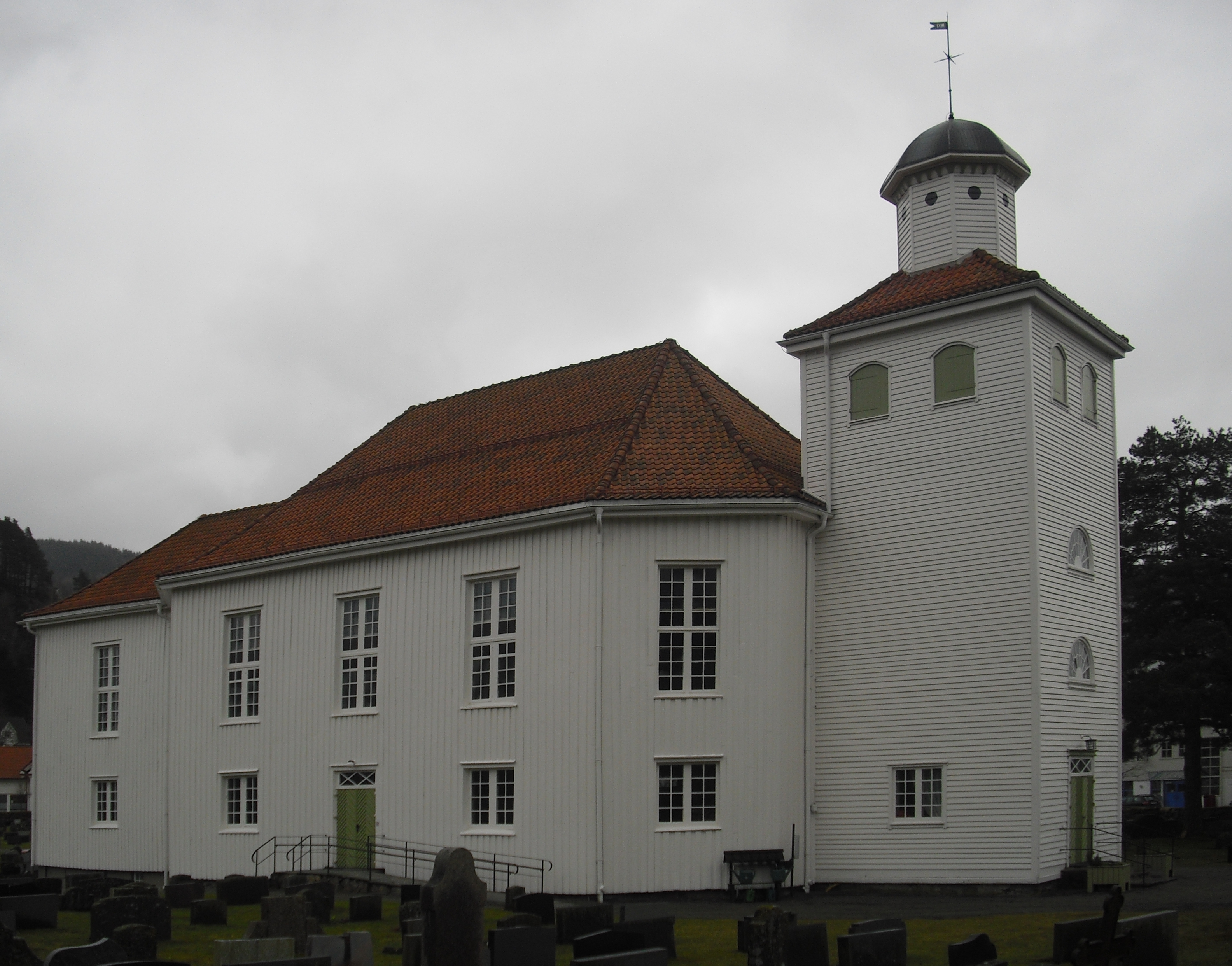 Kvinesdal kirke in Vest-Agder, Norway